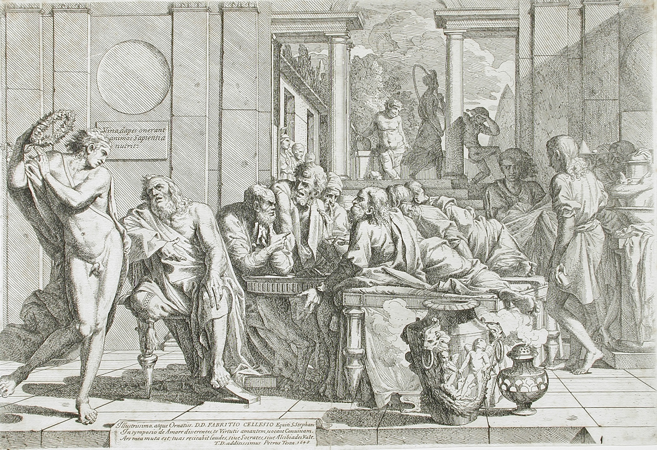 Prints; etchings Purchased with funds provided by Benjamin Weiss (M.90.53) Prints and Drawings